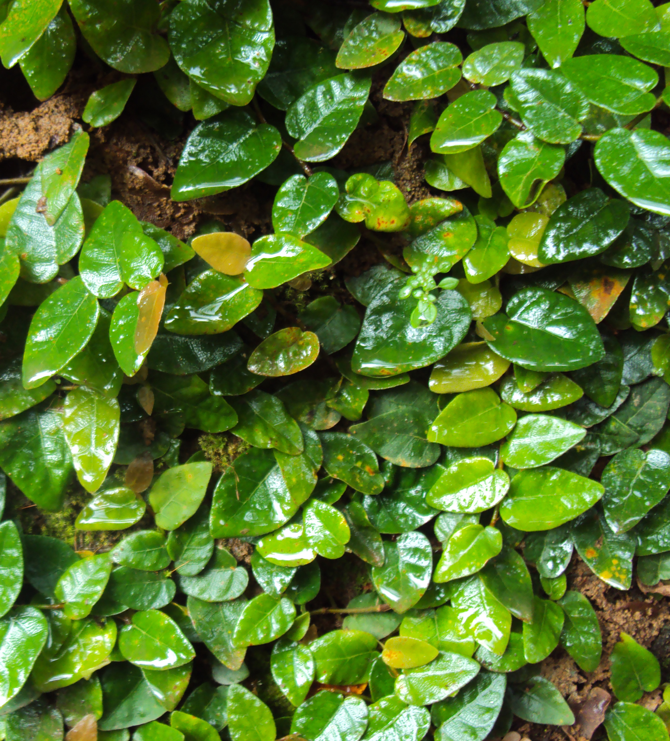 Ficus pumila plant on a wall - മതിൽപറ്റി